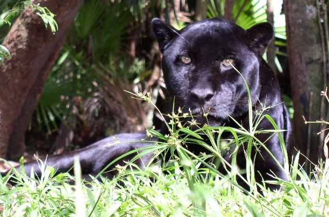 Melanistic form of Jaguar (Panthera onca), a larger relative of the Puma.